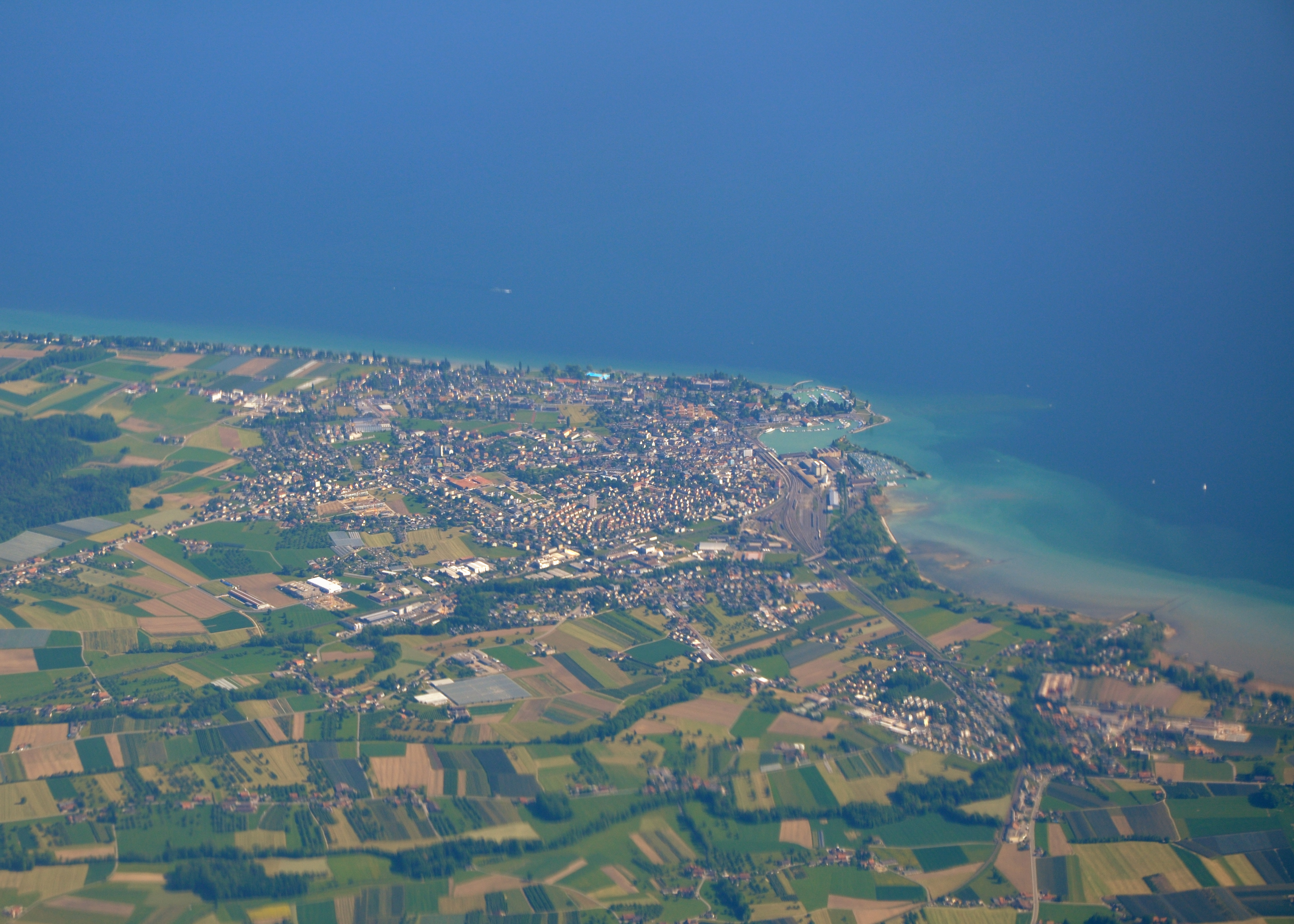 Switzerland, Canton of St. Gallen, aerial view overhead Engelburg